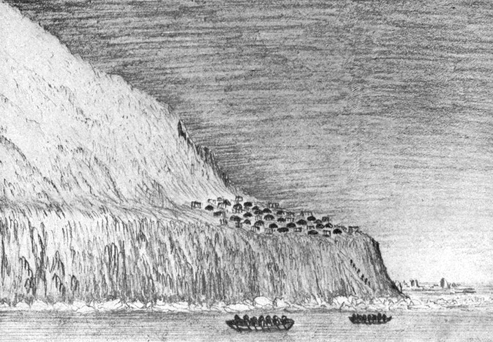 WEST DIOMEDE VILLAGE